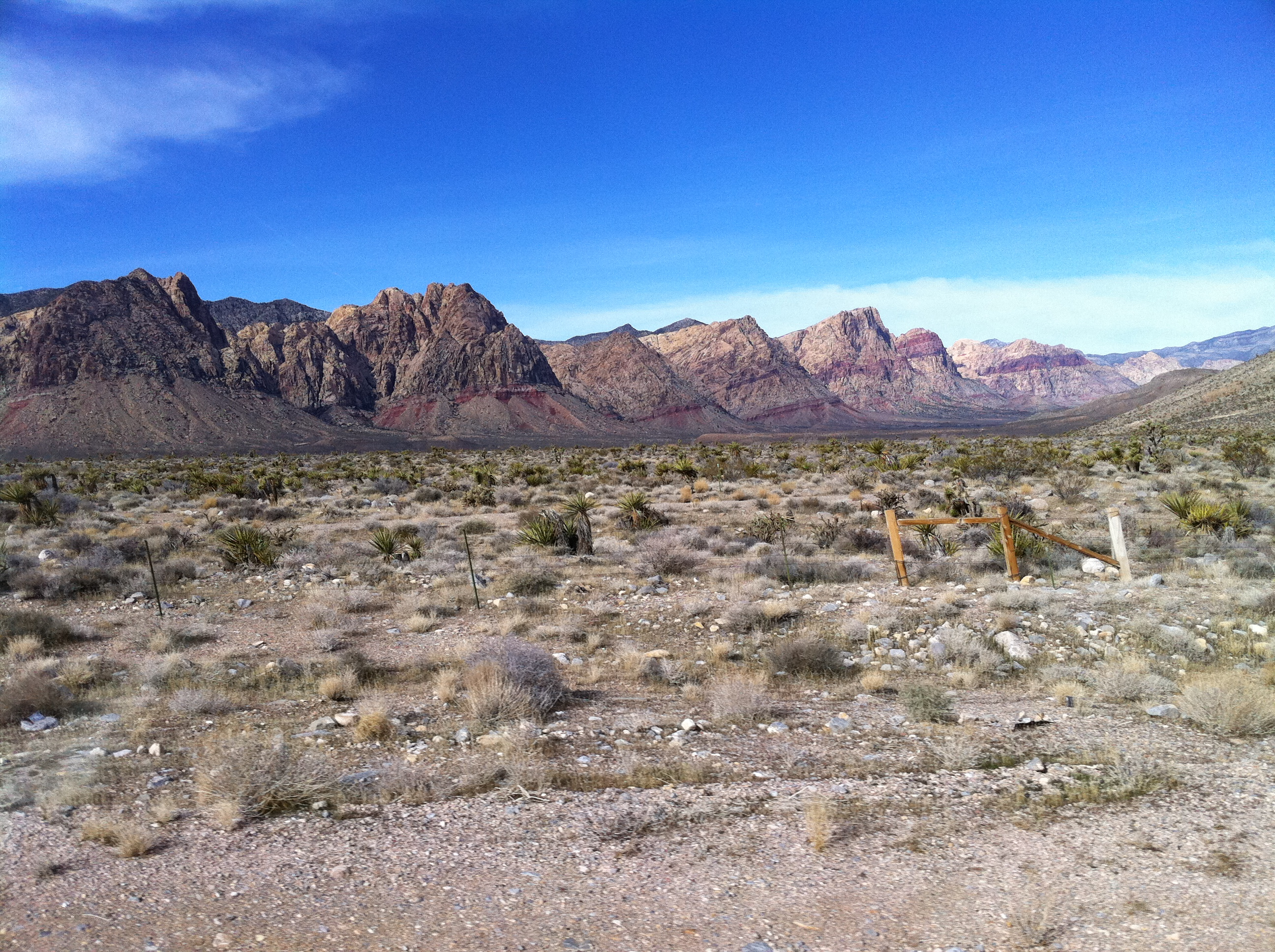 West of Las Vegas along Hwy 160